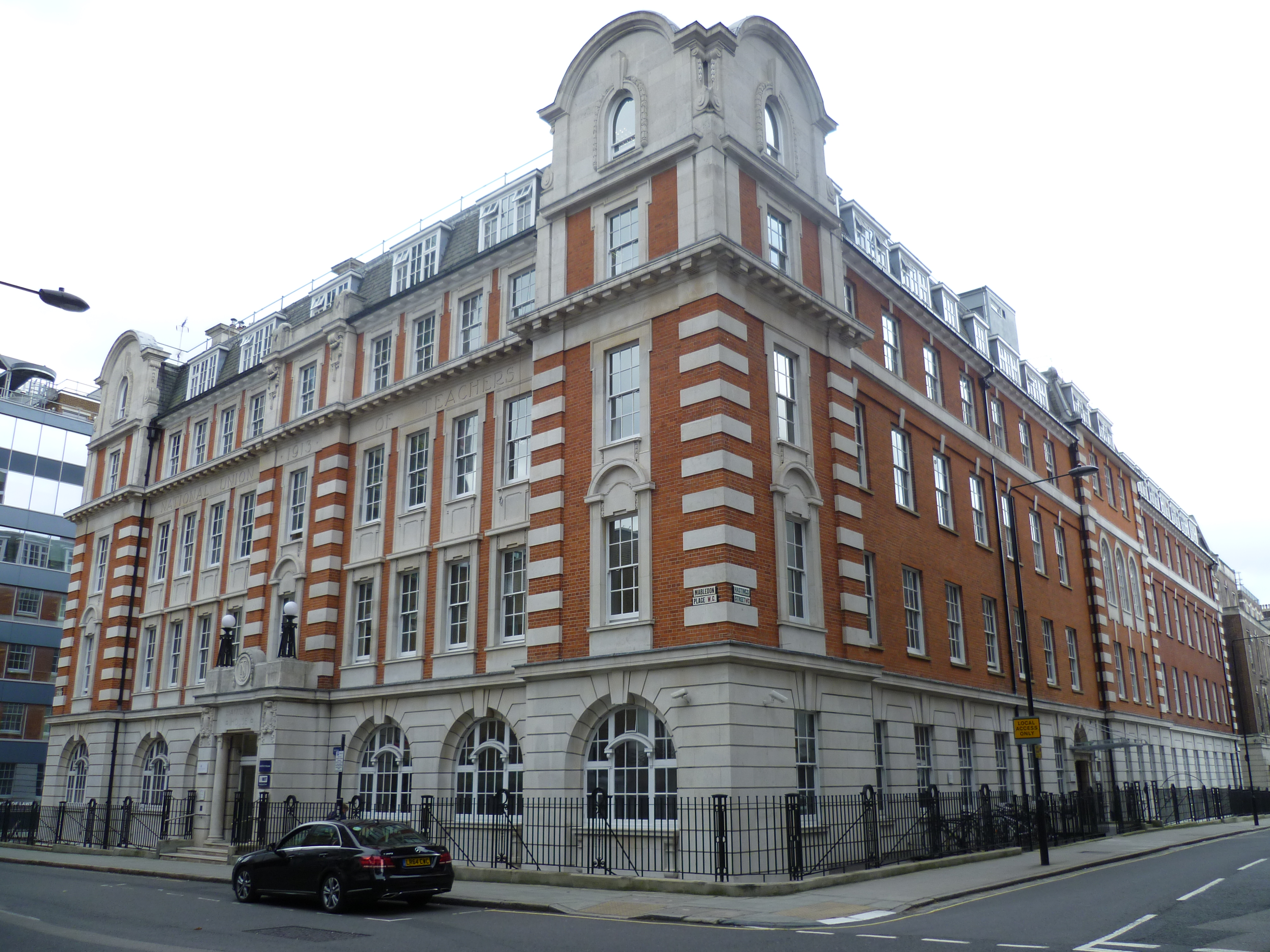 Hamilton House, National Union of Teachers, Mabledon Place & Hastings Street